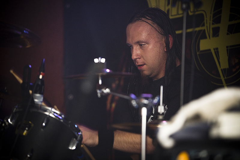 Łukasz "Icamaz" Sarnacki from band Christ Agony